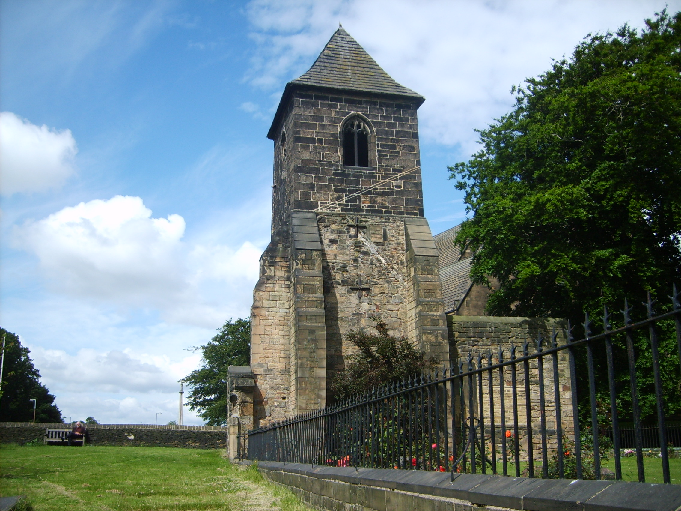 St. Mary's Church, Mirfield.